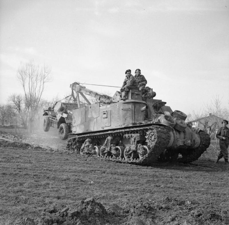 The Campaign in Italy 1945 A Grant ARV of the New Zealand Division lifts a Daimler scout car which had become bogged down in the mud near Faenza.